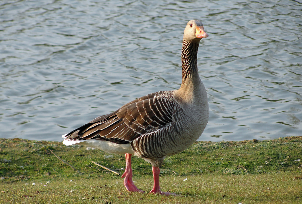 A Greylag Goose beside Furzton Lake in Milton Keynes, Buckinghamshire, England.